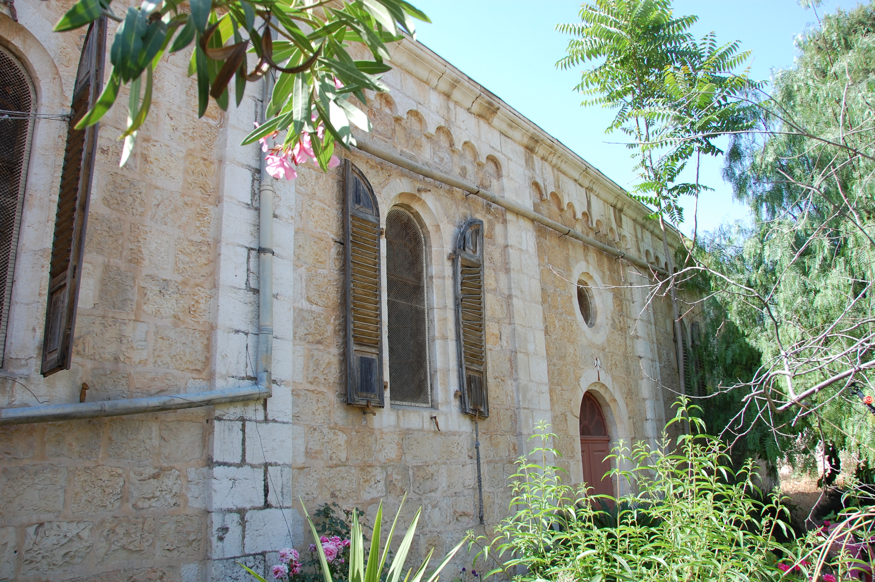 the house in emek refain 1, jerusalem